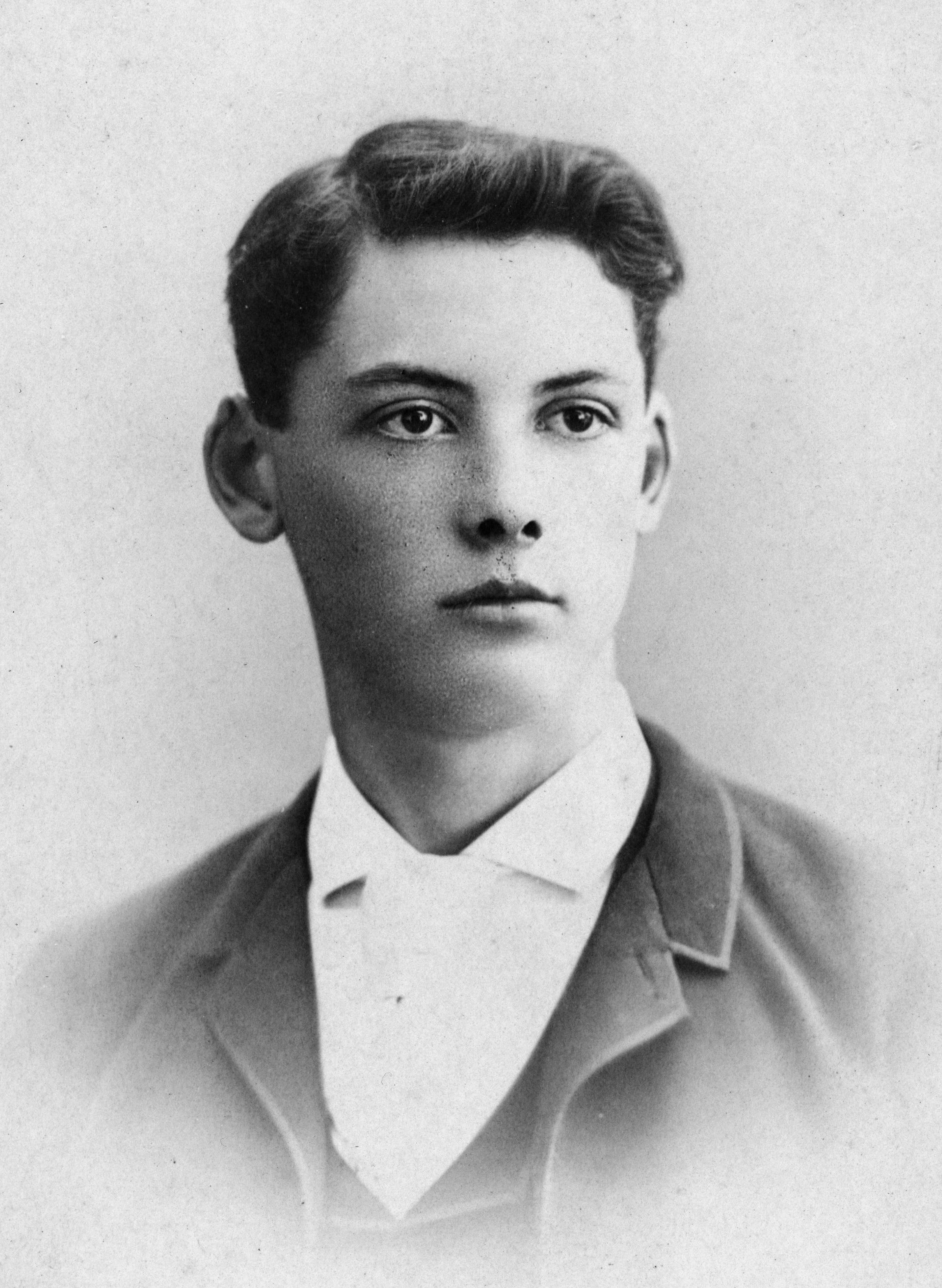 Edwin Arlington Robinson